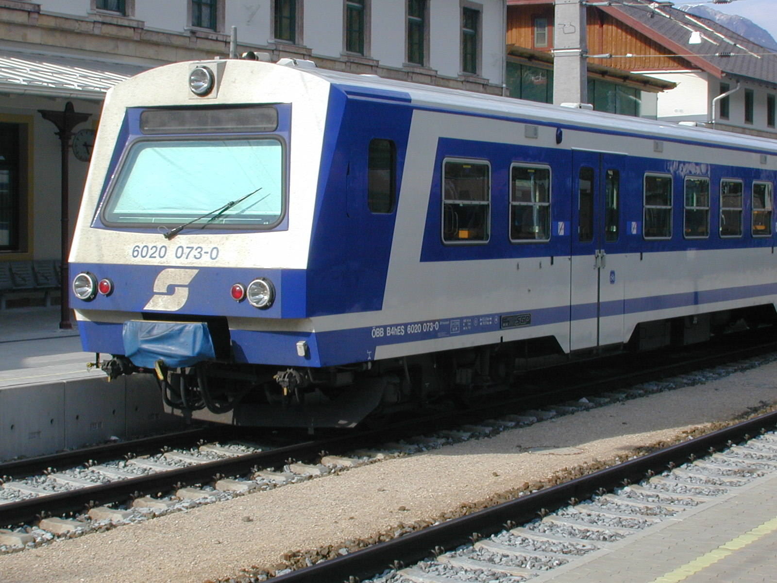 ÖBB 6020 073-0 (driving trailer of a class 4020 EMU) in Landeck, Austria. It has just arrived as a local train from Innsbruck Hbf (main station) at its terminus.